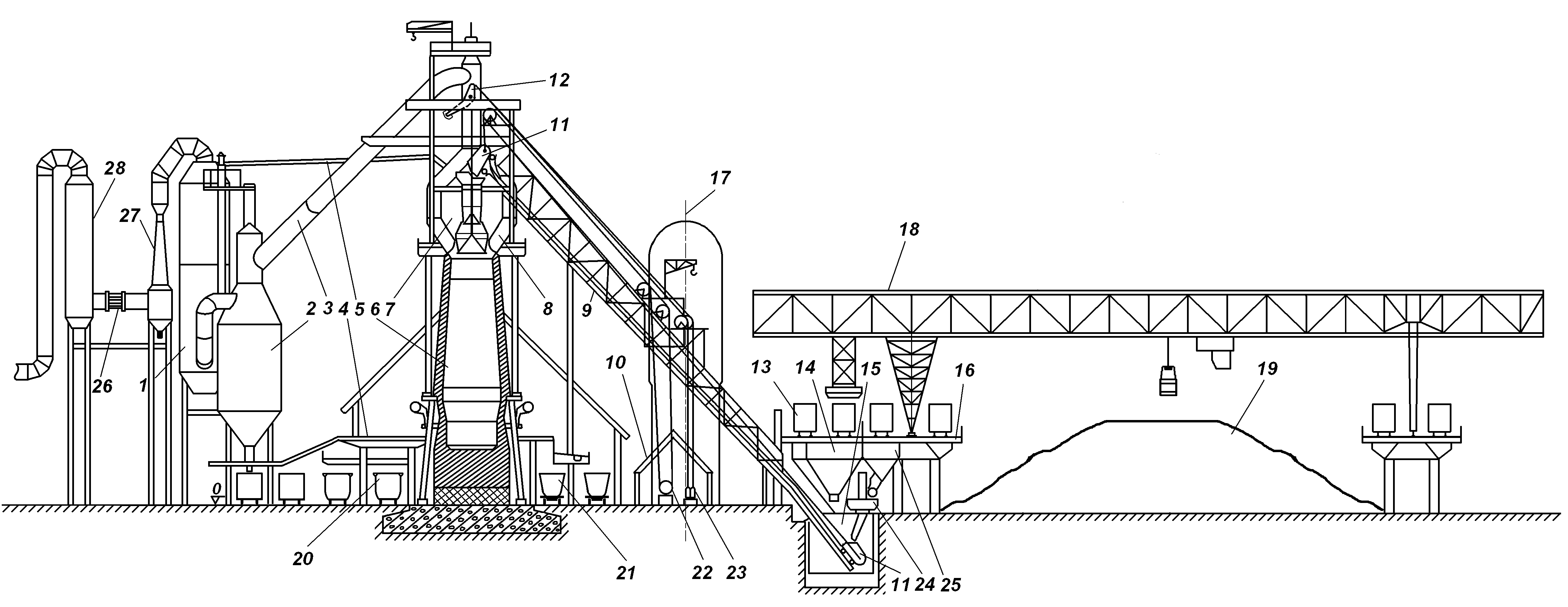 General arrangement of a blast furnace plant.